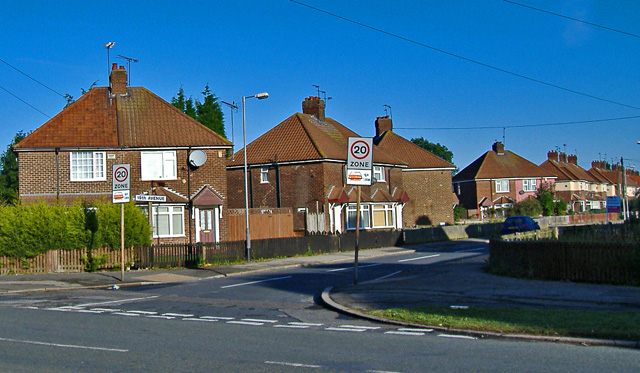 19th Avenue, Hull Seen from its junction with Endike Lane